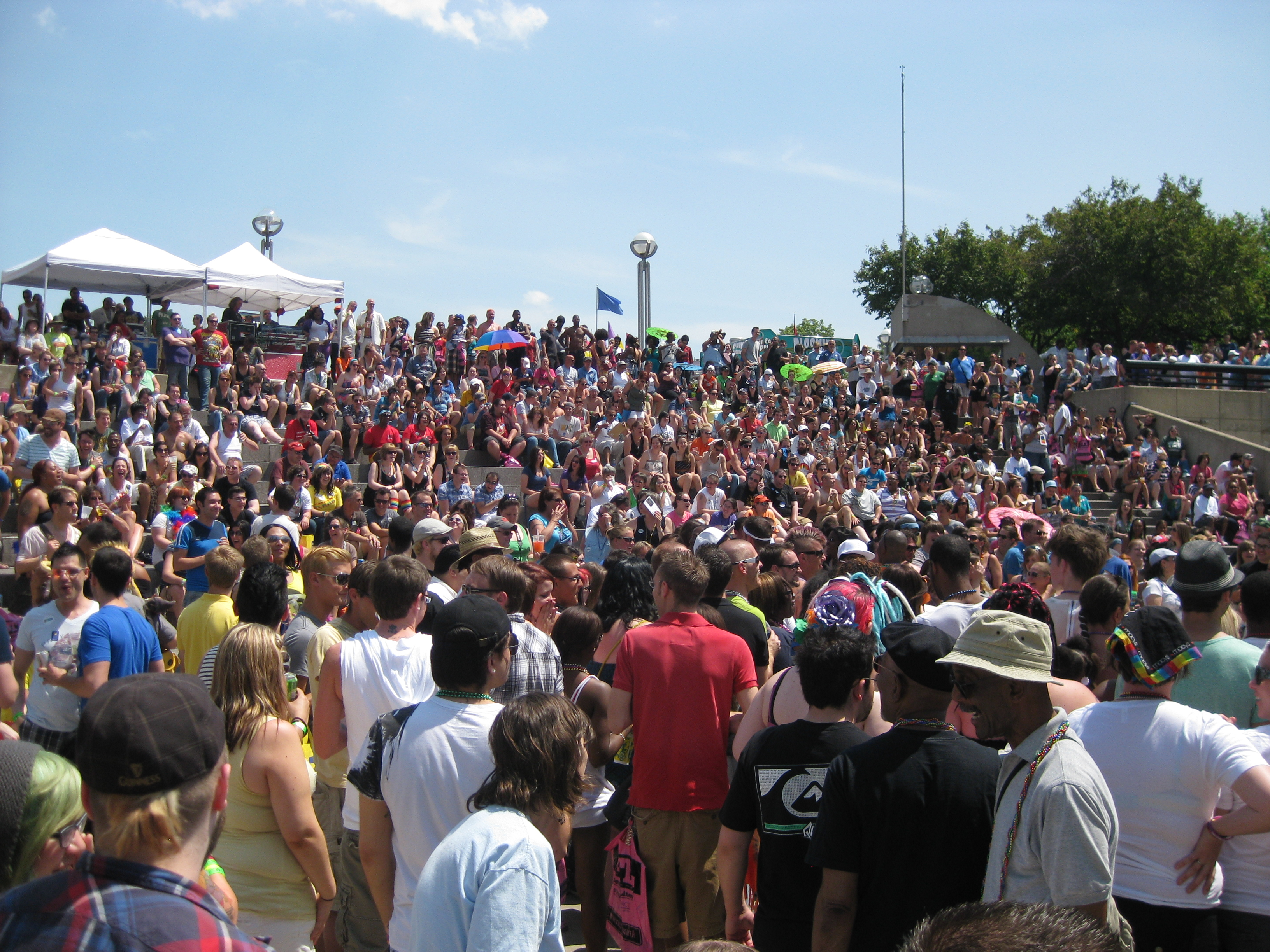 Crowd at Motor City Pride 2011 in Detroit Michigan's Hart Plaza